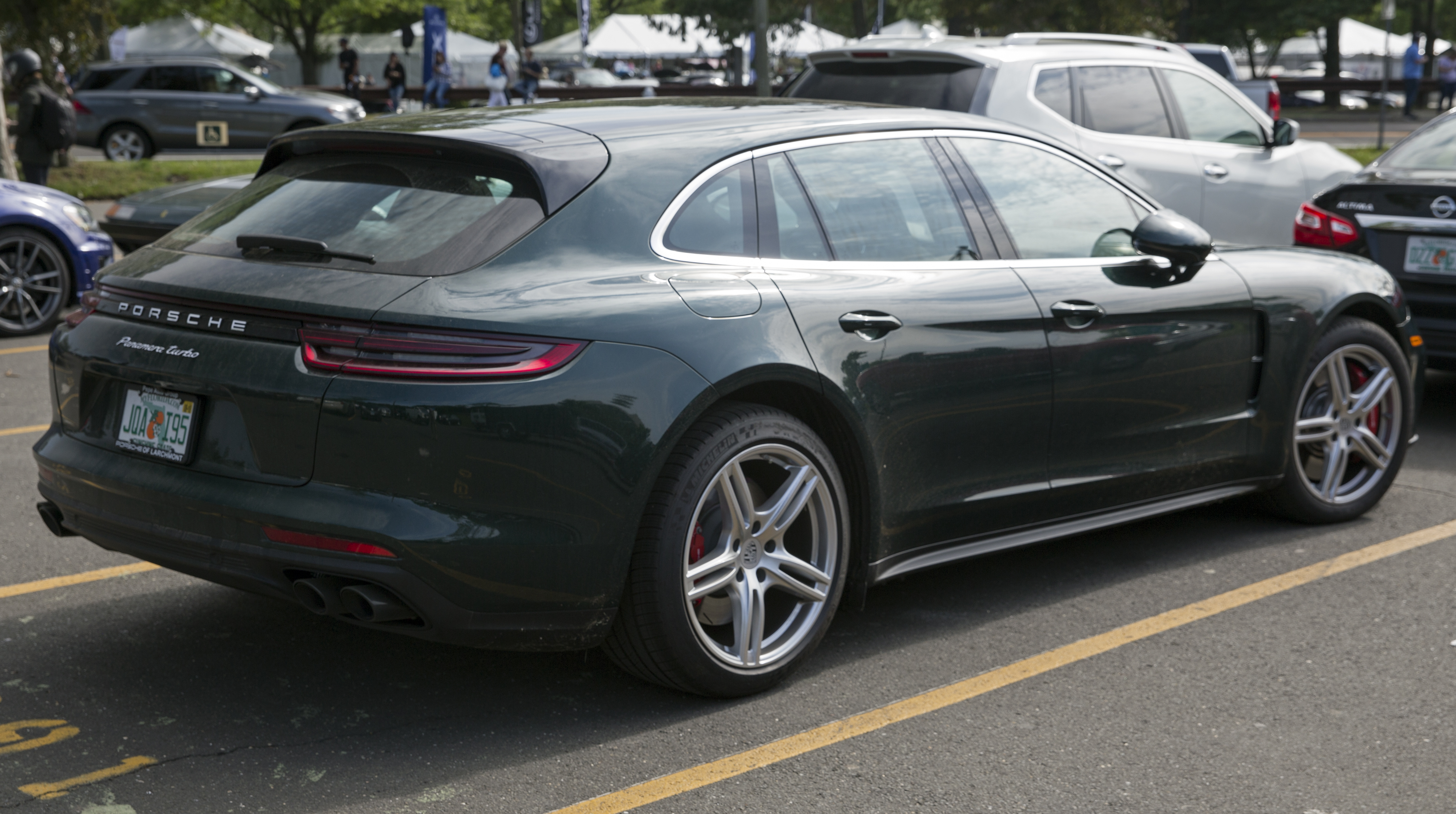 A 2018 Porsche Panamera (971) Turbo Sport Turismo at the 2018 Greenwich Concours d'Elegance. Yuk, but still looks better than the 970.